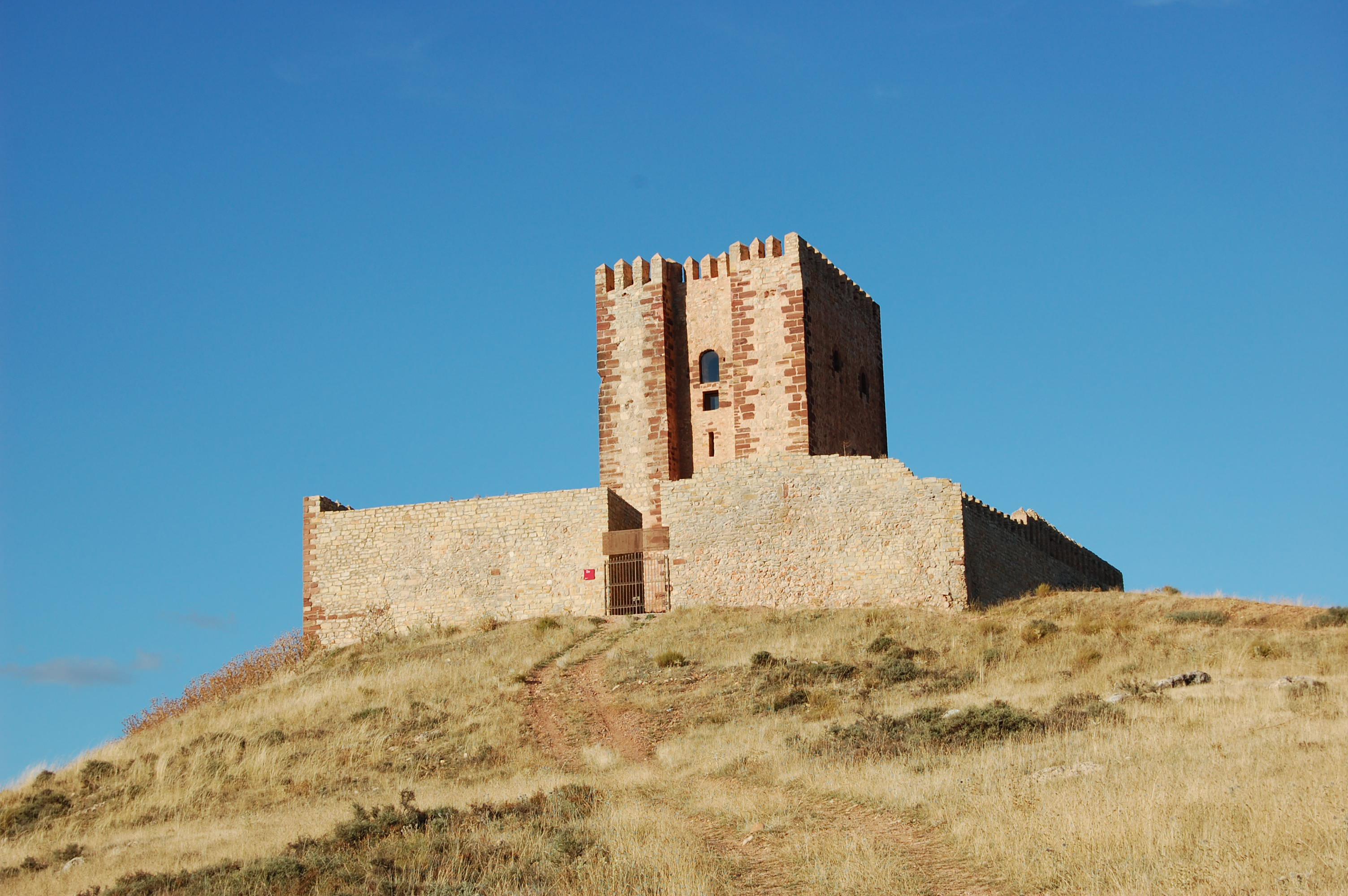 Torre de Aragón in Molina de Aragón, province of Guadalajara, Spain.